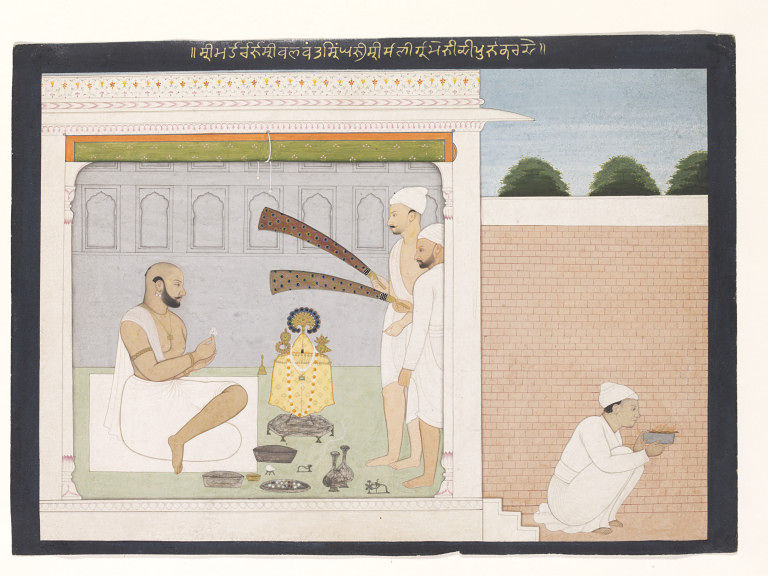 Miniature by Nainsukh (c. 1710-1778), Victoria and Albert Museum, London, ( link), c. 1750 V&A comments: Painting, in opaque watercolour and gold on paper, the Raja Balwant Singh doing a puja at a Vishnu shrine, attended by servants. He is bare chested and wears a white dhoti, and sits in a chamber before a shrine in which a salagrama, a shrine sacred to Vishnu, is covered by a cloth decorated with garlands and a peacock-crown, conch, discus, mace and lotus. Two servants holding murchhals attend the Raja, while a third, squatting in front of a wall outside, prepares a brazier for use in the puja. c. 1750, Height: 18.5 cm, Width: 26 cm